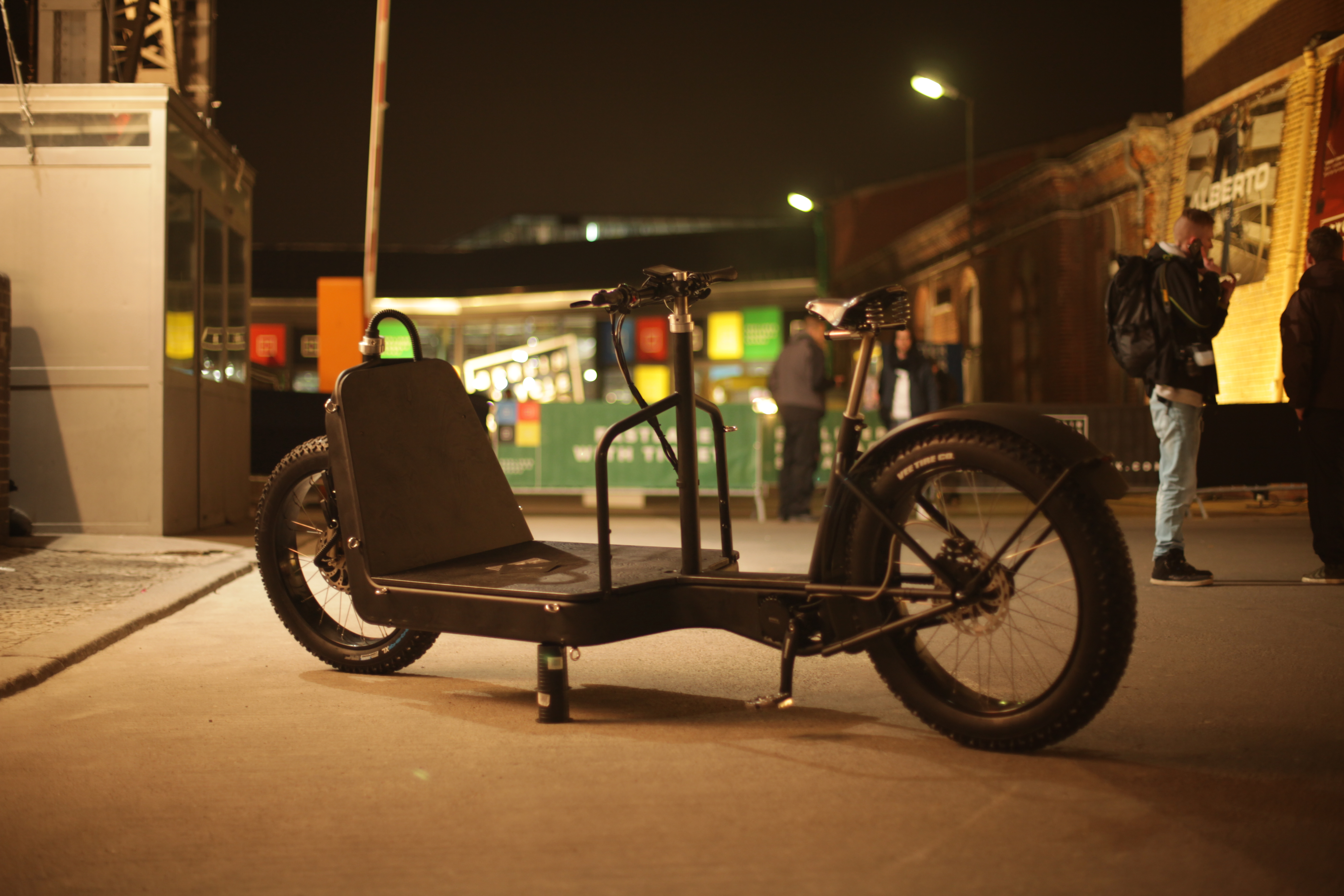 electric offroad cargobike, Long John style